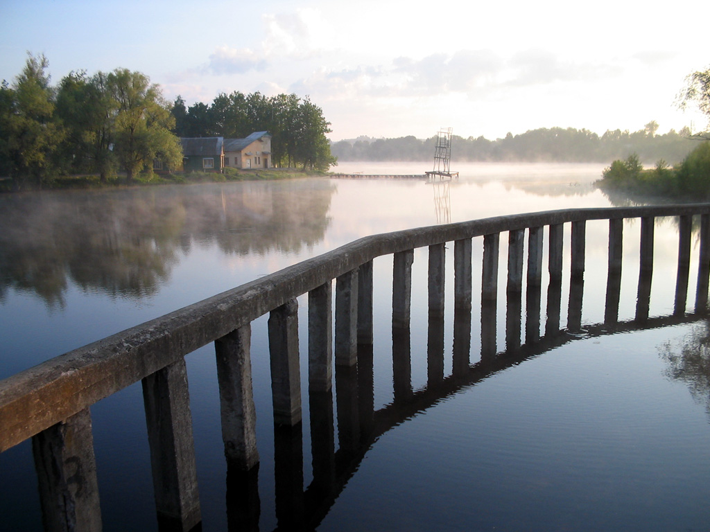 Volva River near Kirov, Kirov Oblast.